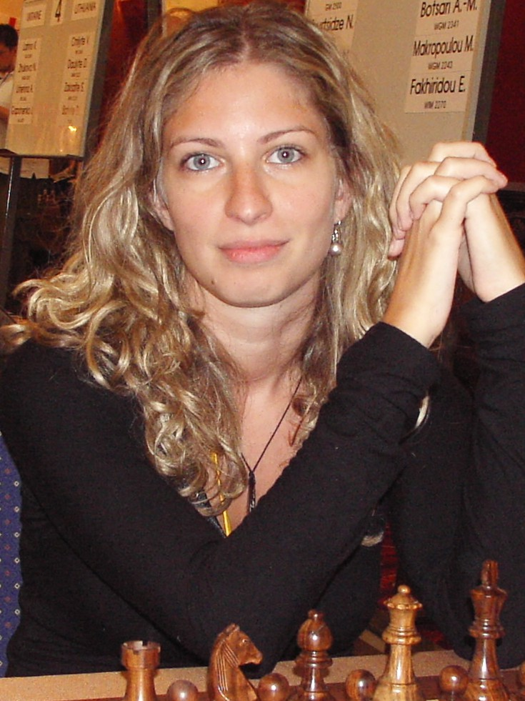 WGM Ticia Gara Hungary, EuroChess Iraklion 2007